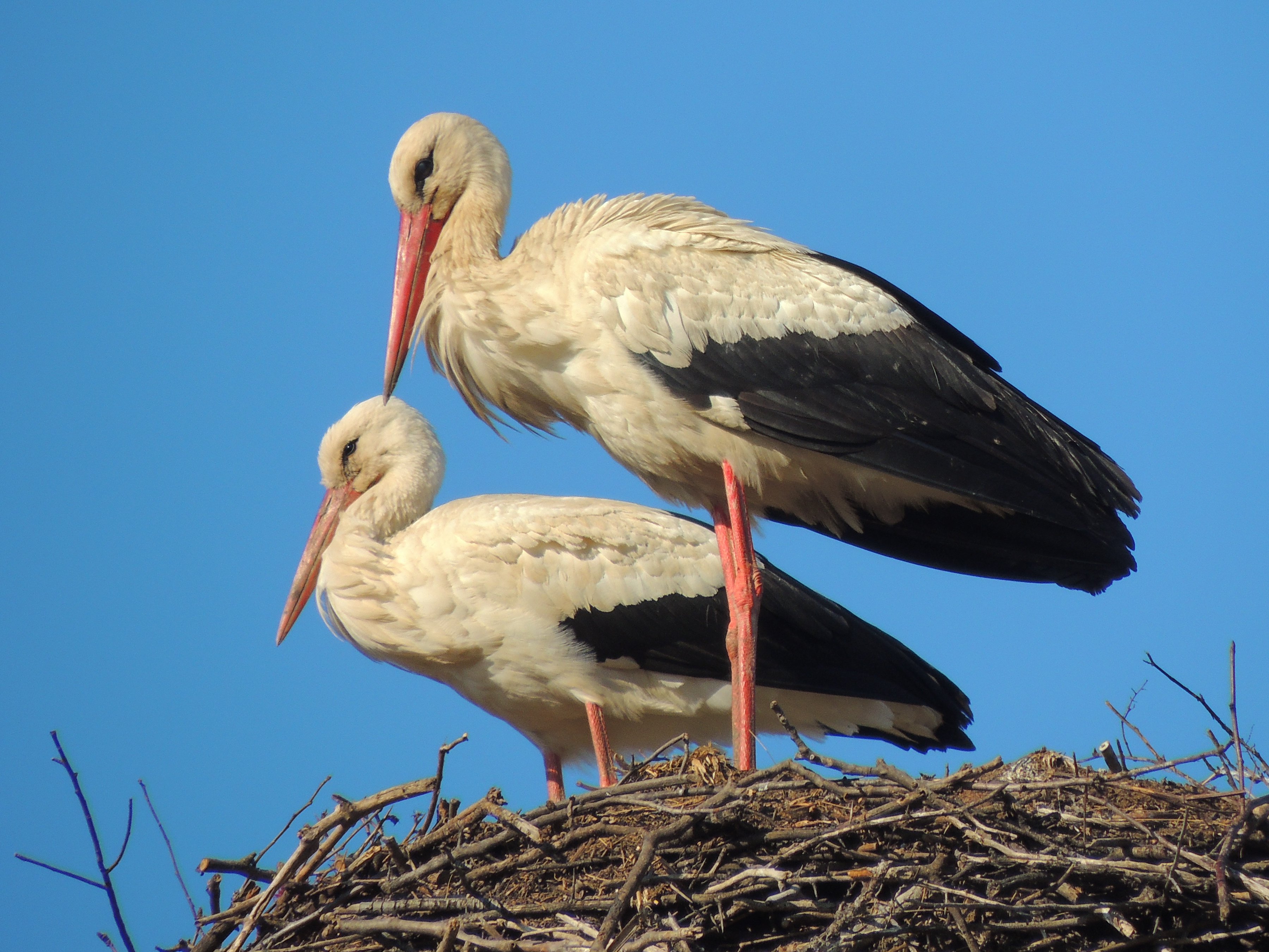 white stork Weißstorch barză